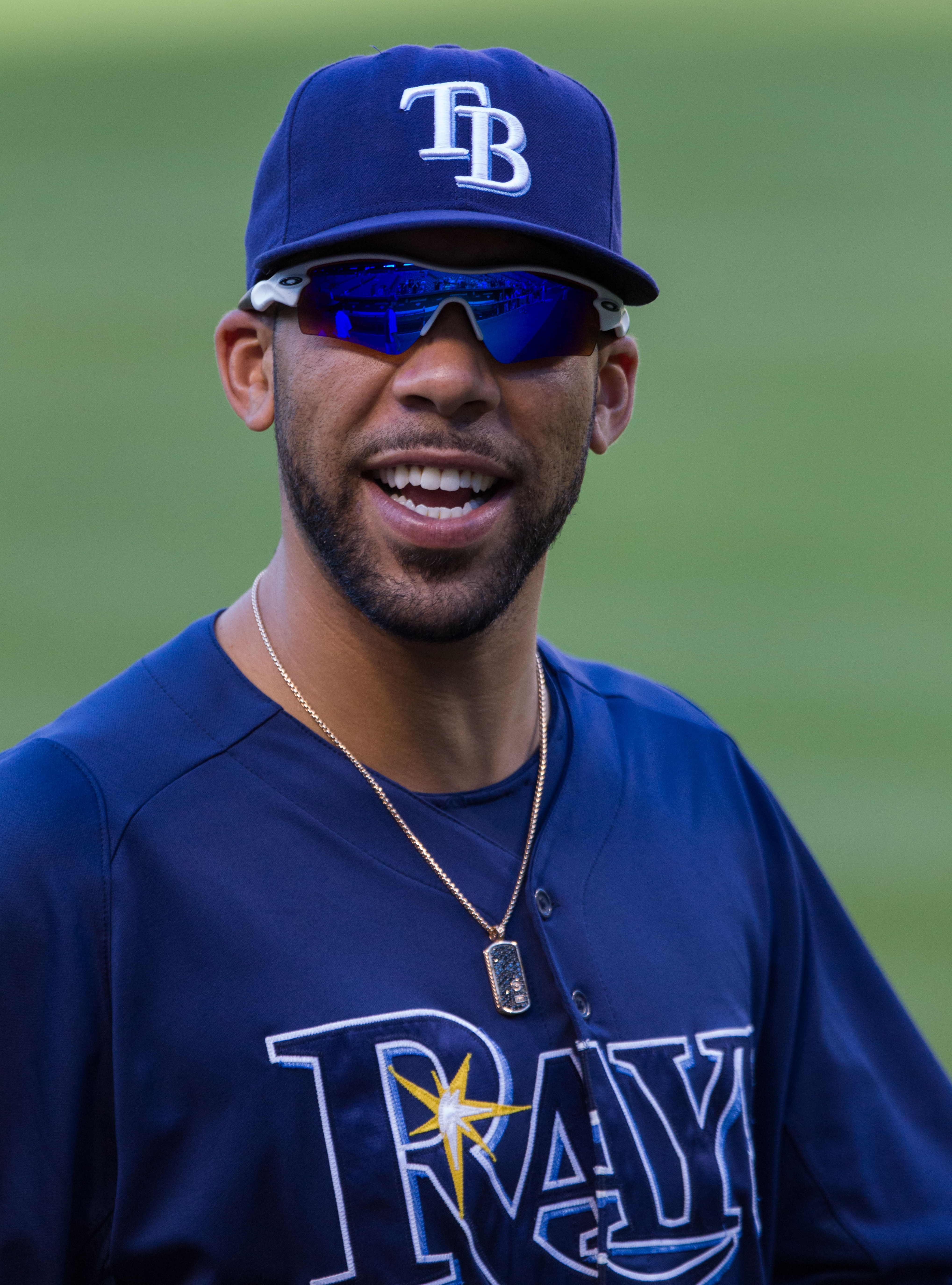 Rays at Orioles May 11, 2012